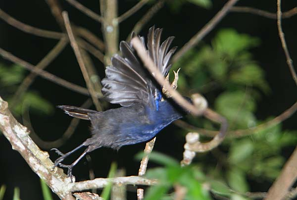 Sorry for the quality of this image! A very secretive range-restricted Sri Lankan endemic which is very difficult to see. This bird skulks in deep cover along well-wooded ravines in the Sri Lankan highlands. The best chance of seeing the bird is at dawn when the males are singing or at dusk when they bathe before roosting. Whilst I got good views of male and female I really struggled to get an image due to the low light levels (our itinerary did not allow a return visit without the family to get a better image!). This image was taken by flash in near darkness along a wooded stream near Nuwara Eliya in the Sri Lankan highlands.